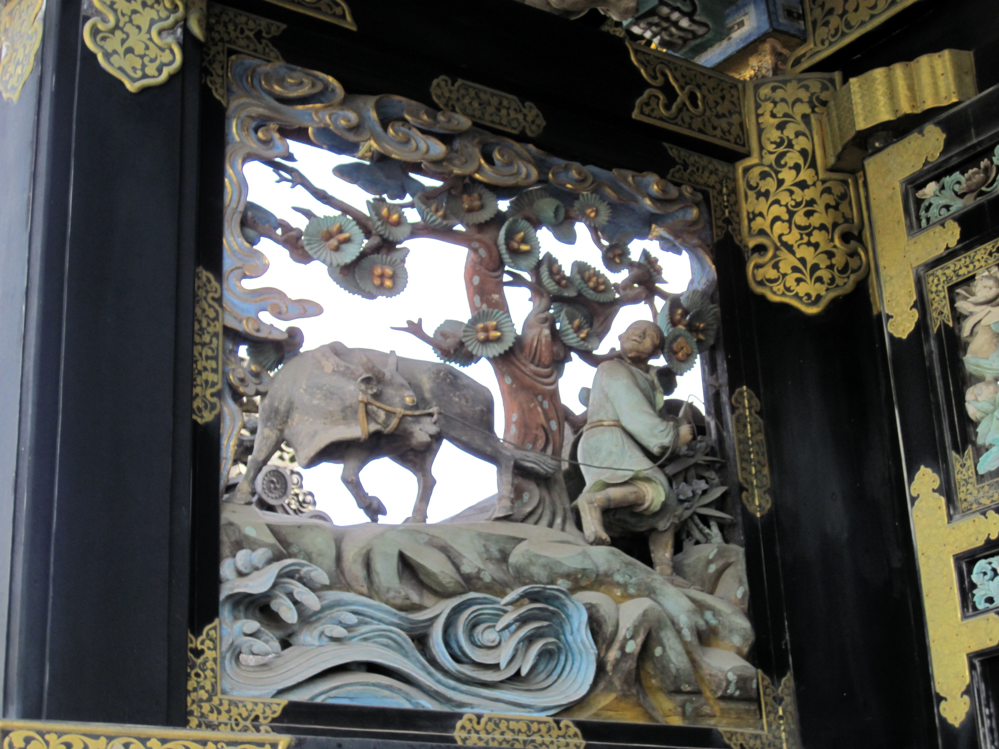 Hongan-ji National Treasure World heritage Kyoto 国宝・世界遺産 本願寺 京都